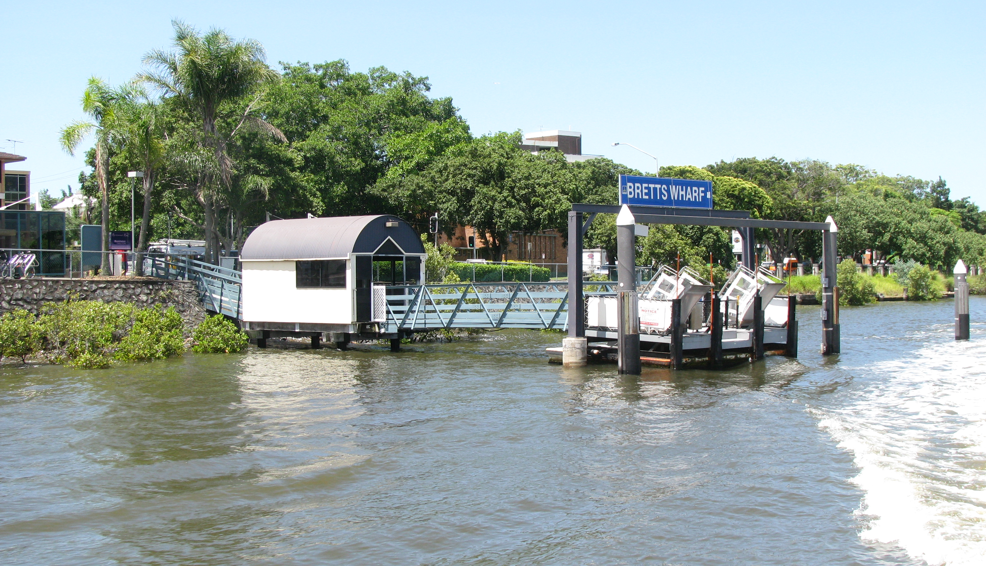 Bretts Wharf viewed from the back of a CityCat.